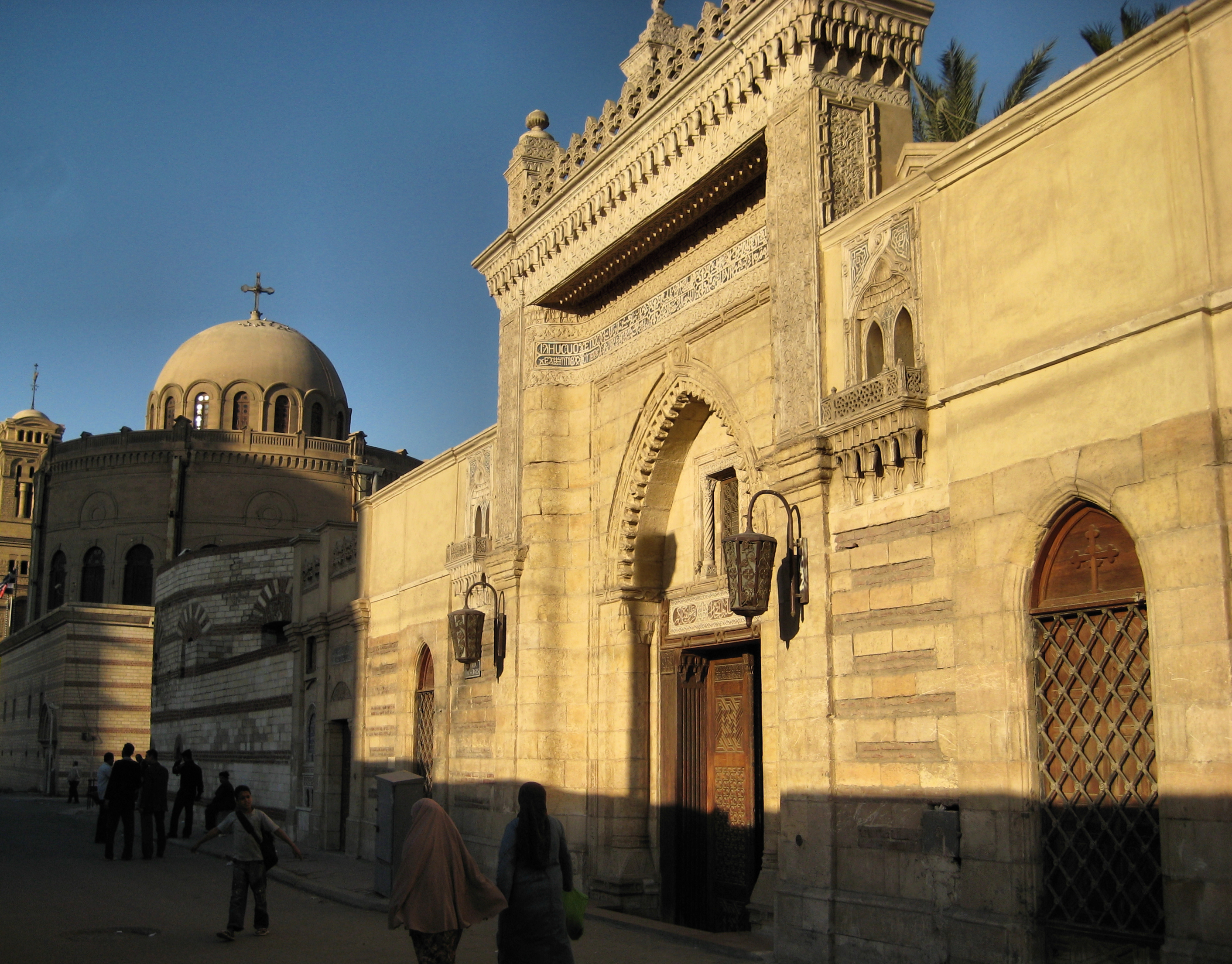 Coptic Cairo